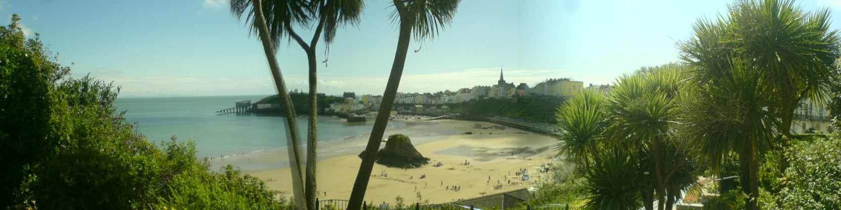 Panorama image of Tenby